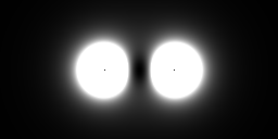 The magnitude of an electric field surrounding two equally charged, point-like particles.